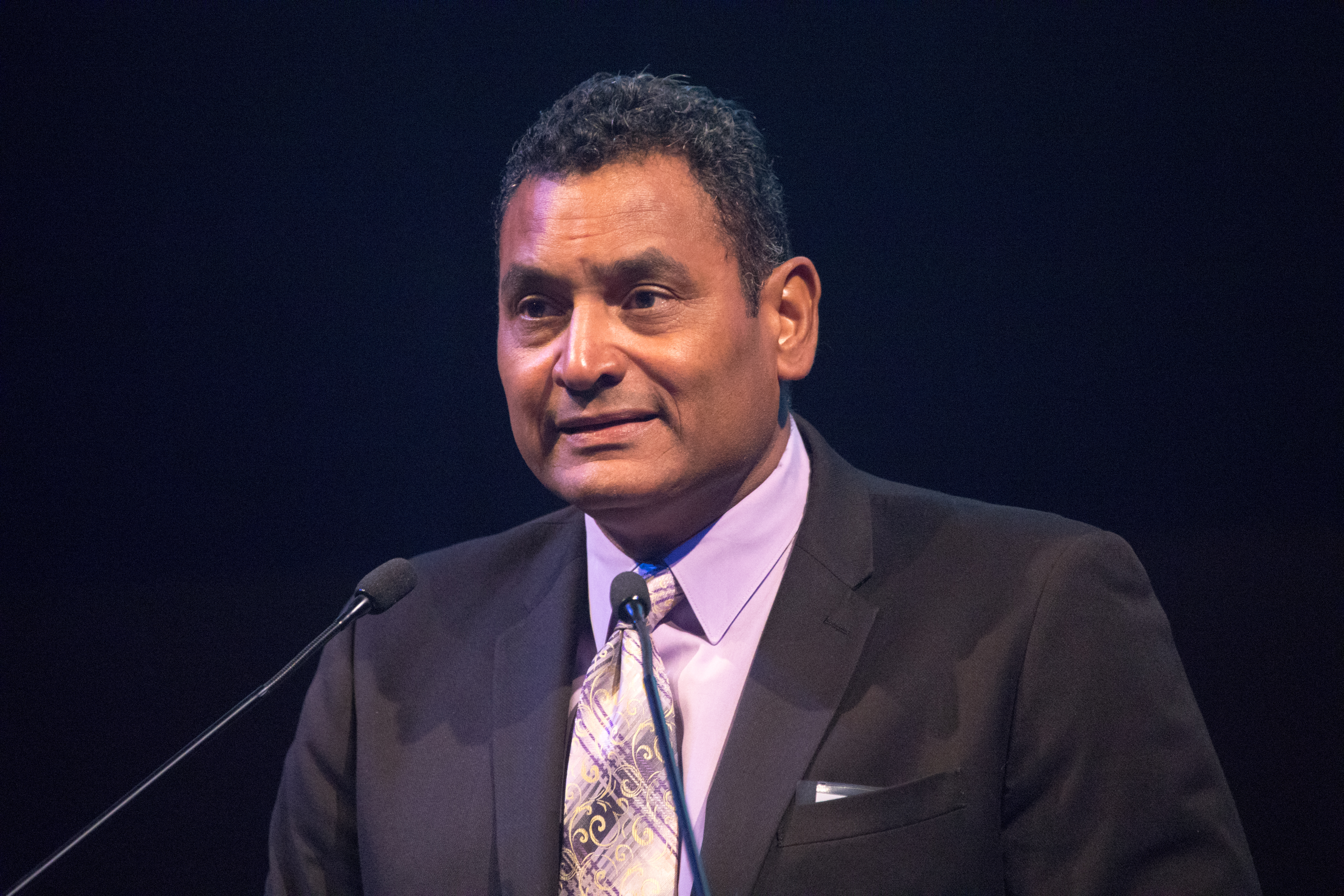 Orestes Destrade speaks during the MLBPAA's 2016 Legends for Youth Dinner.